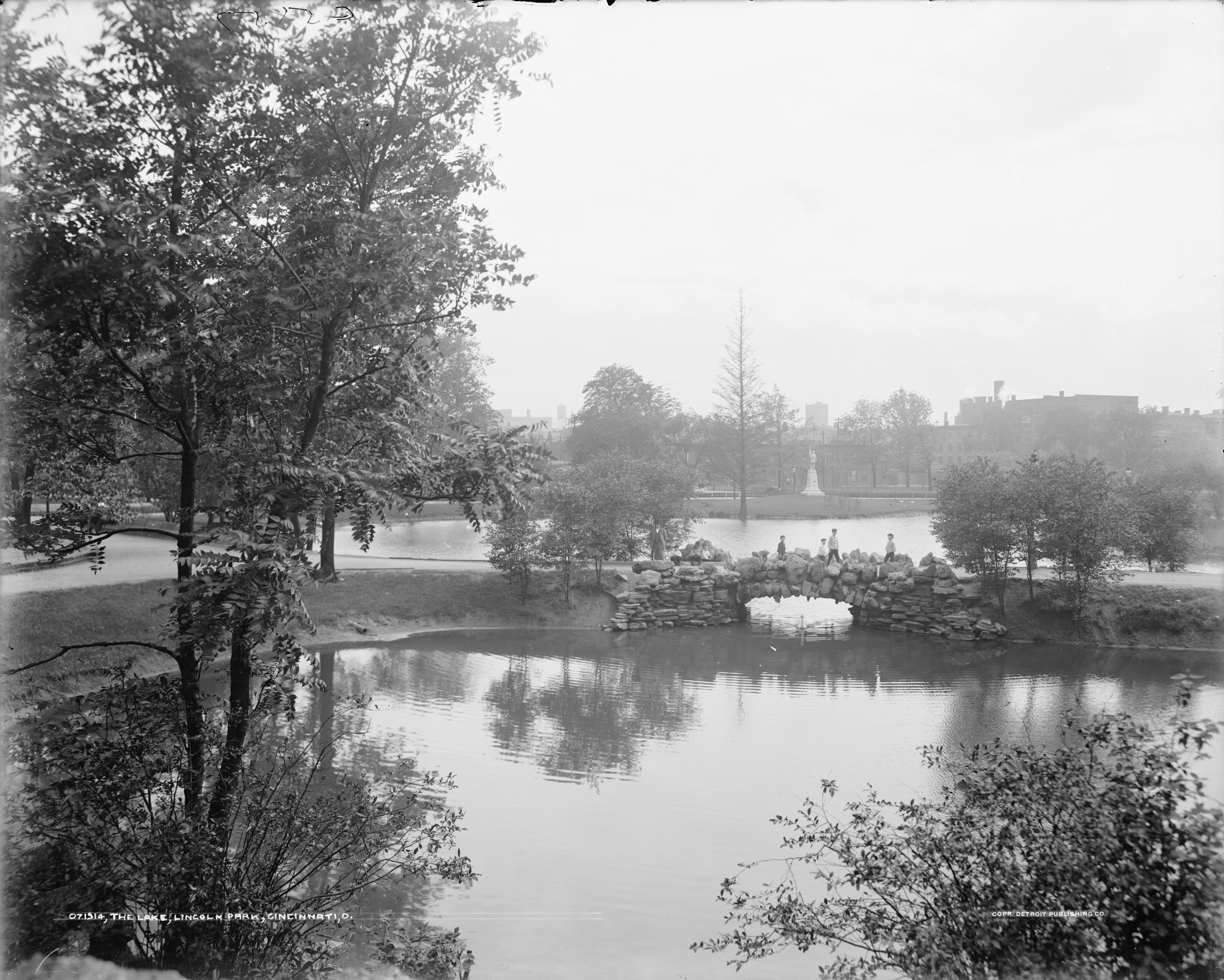 The Lake, Lincoln Park, Cincinnati, Ohio. Crop of File:The Lake, Lincoln Park, Cincinnati, Ohio 01.tif